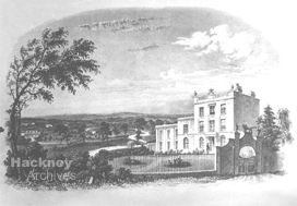 Northumberland House, Green Lanes Harringay, looking north-east, c.1835. The New River can be seen in the background. Vivienne Haigh-Wood Eliot, first wife of the American poet T.S. Eliot was a patient here from 1938 until her death in 1947.